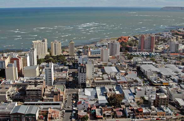 Aerial view of Comodoro Rivadavia, Chubut Province, Argentina.